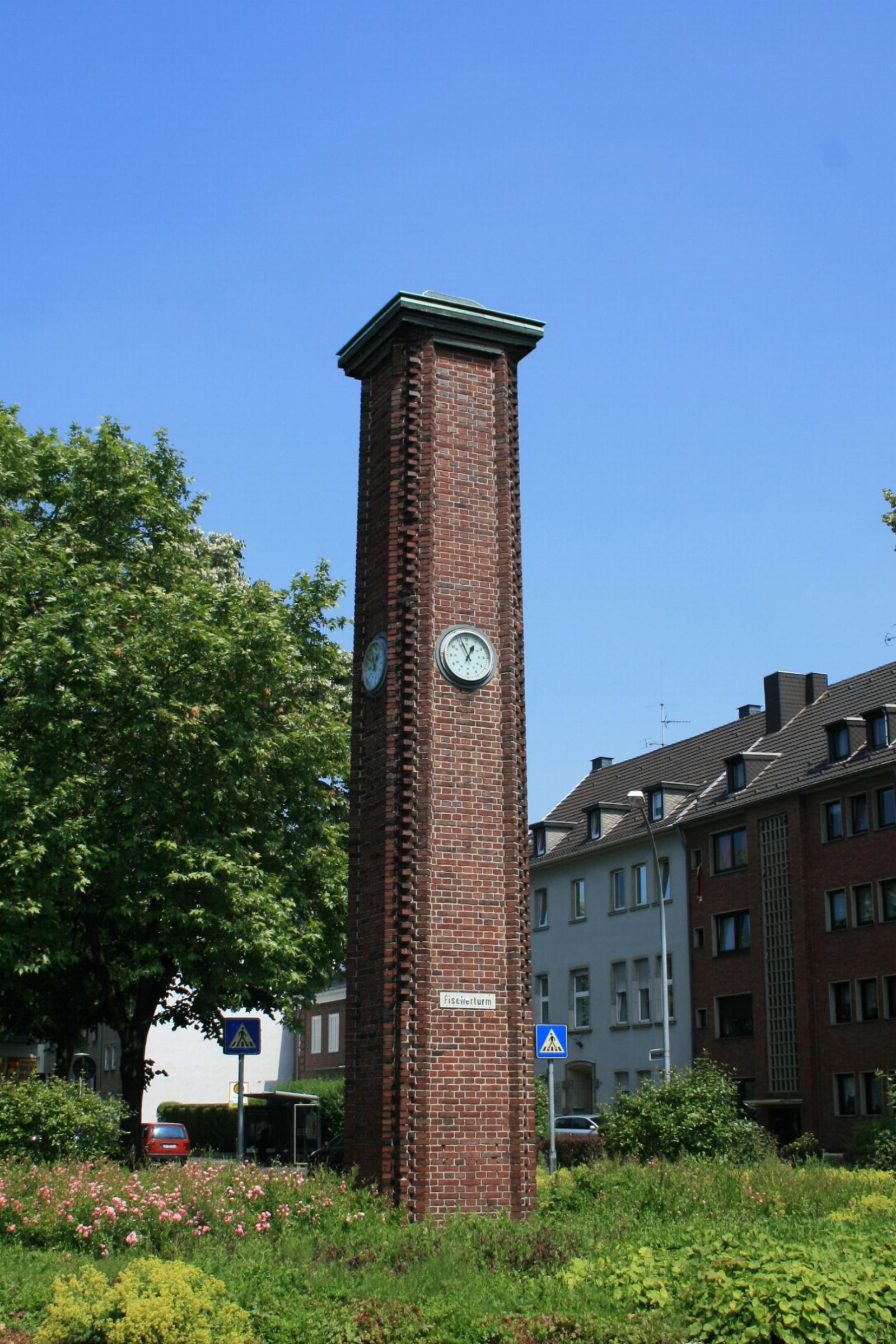 Cultural heritage monument No. B 111 in Mönchengladbach